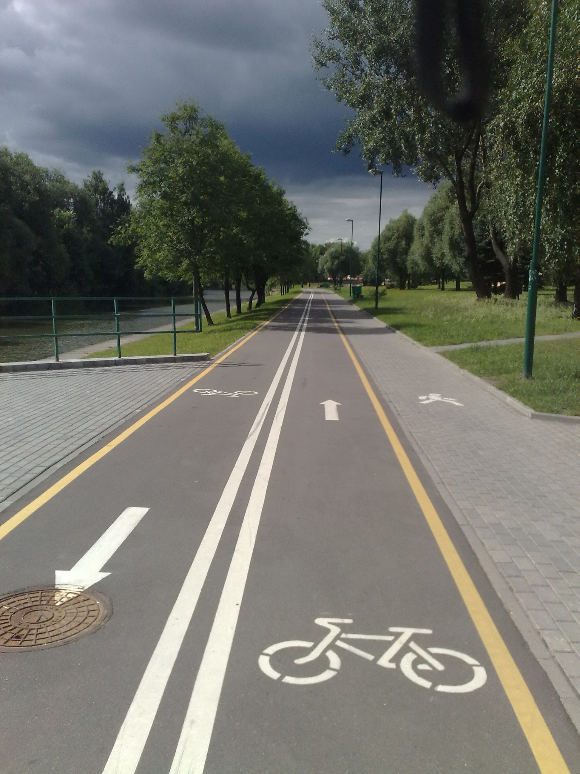 Bike path in Minsk, Belarus